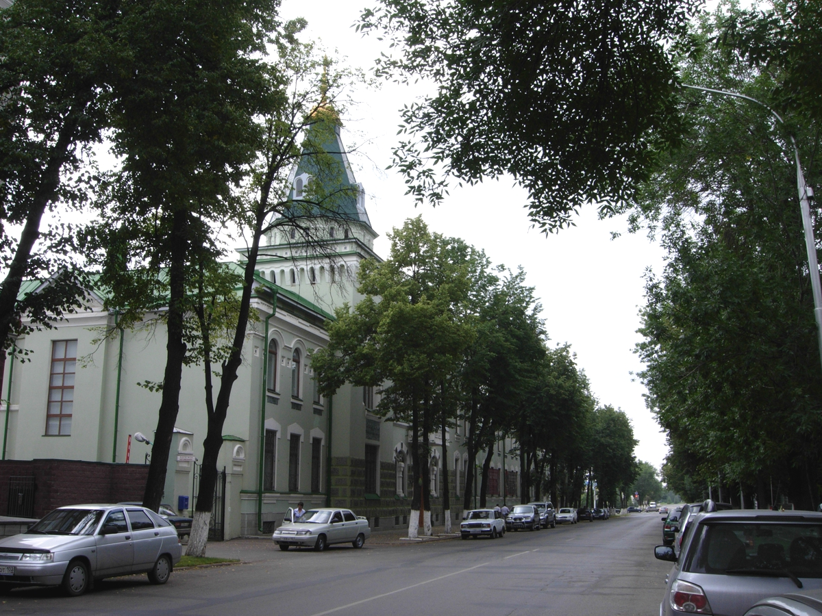 Bashkortostan National Museum is located former building of Peasants' Land Bank Башҡортса: Башҡортостан милли музейы элекке Крәҫтиән ер банкының бинаһында урынлашҡан